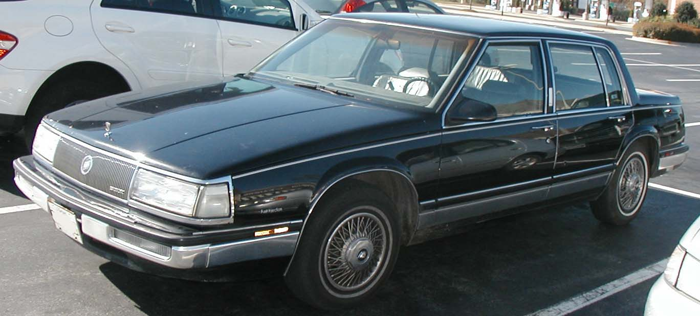 1985-1990 Buick Electra Park Avenue photographed in USA.